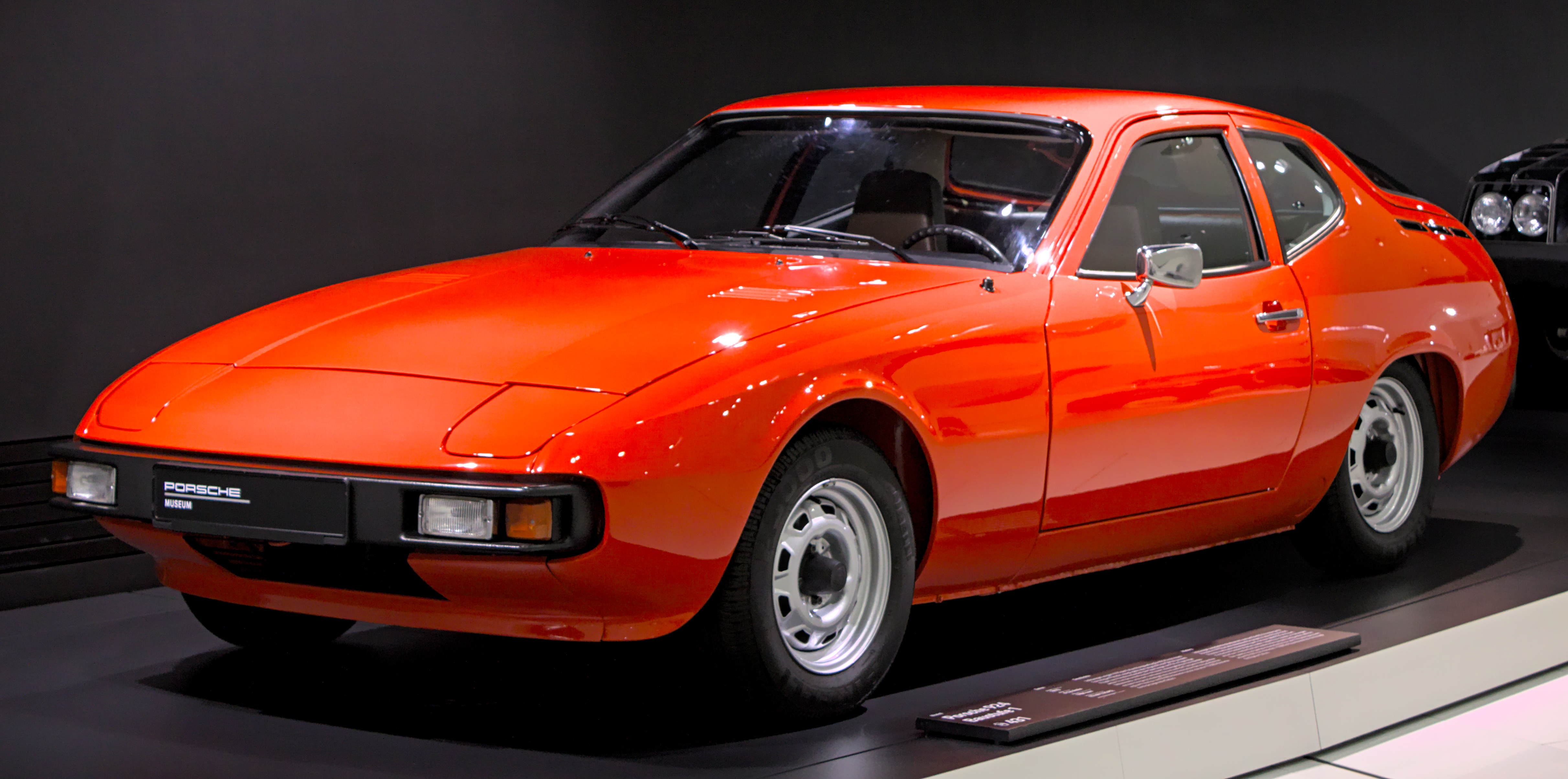 Porsche_924_Baustufe_1_in_the_Porsche-Museum_(2009) in Stuttgart